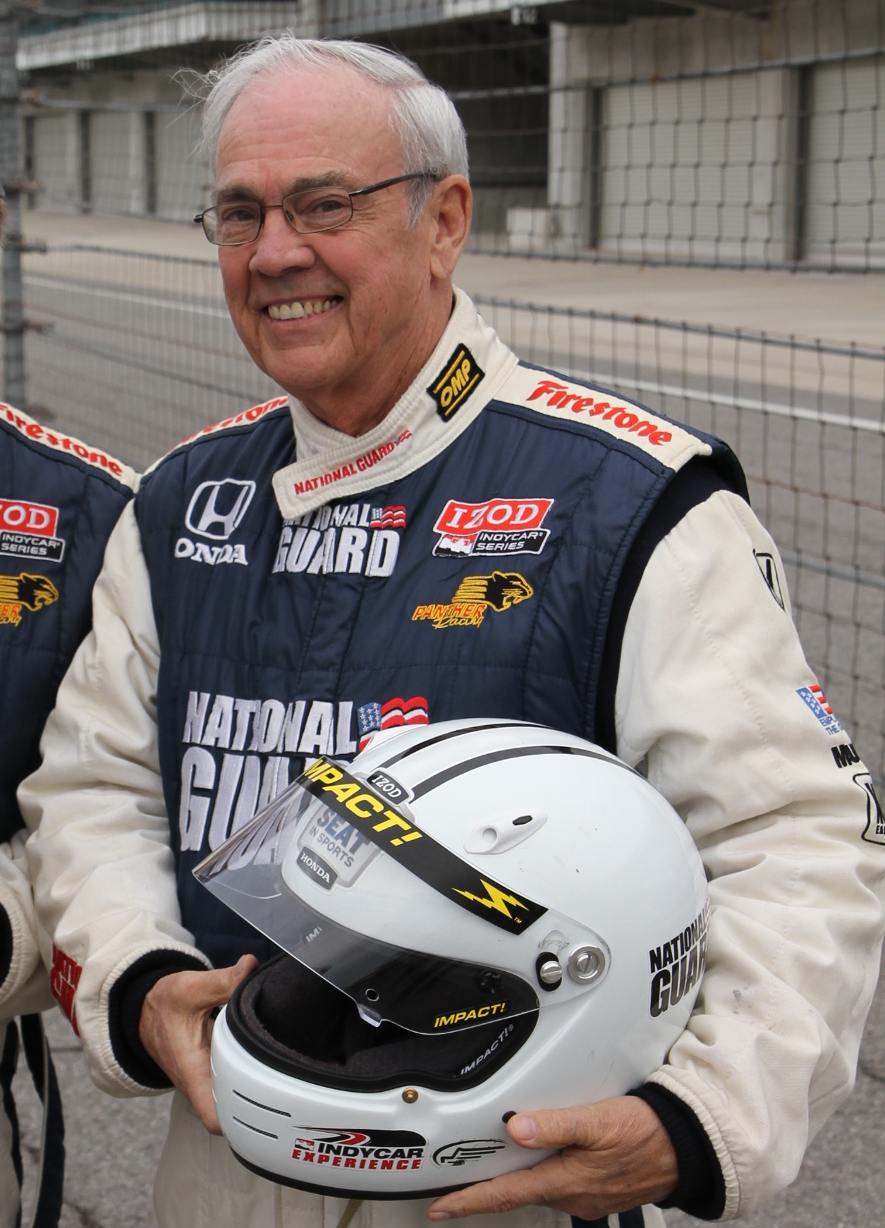 INDIANAPOLIS MOTOR SPEEDWAY, IN (November 19, 2012)-- Dr. Pearse Lyons, founder and president of Alltech, stands with former Kentucky Governor Paul Patton prior to their tandem Indycar racing experience. The ESGR Civic Leaders' Program included a C-130 flight to Camp Atterbury to watch Kentucky Guard Troops in training, a Blackhawk flight to the Indy500 Motor speedway to receive an Indy-tandem ride in a National Guard car, and key briefings from the ESGR officials. (Photos by Lt. Col. Kirk Hilbrecht, Director of Public Affairs, Kentucky National Guard)